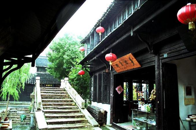 江南茶馆 --PHOTO TAKEN BY USER：Gisling， Suzhou， 2004